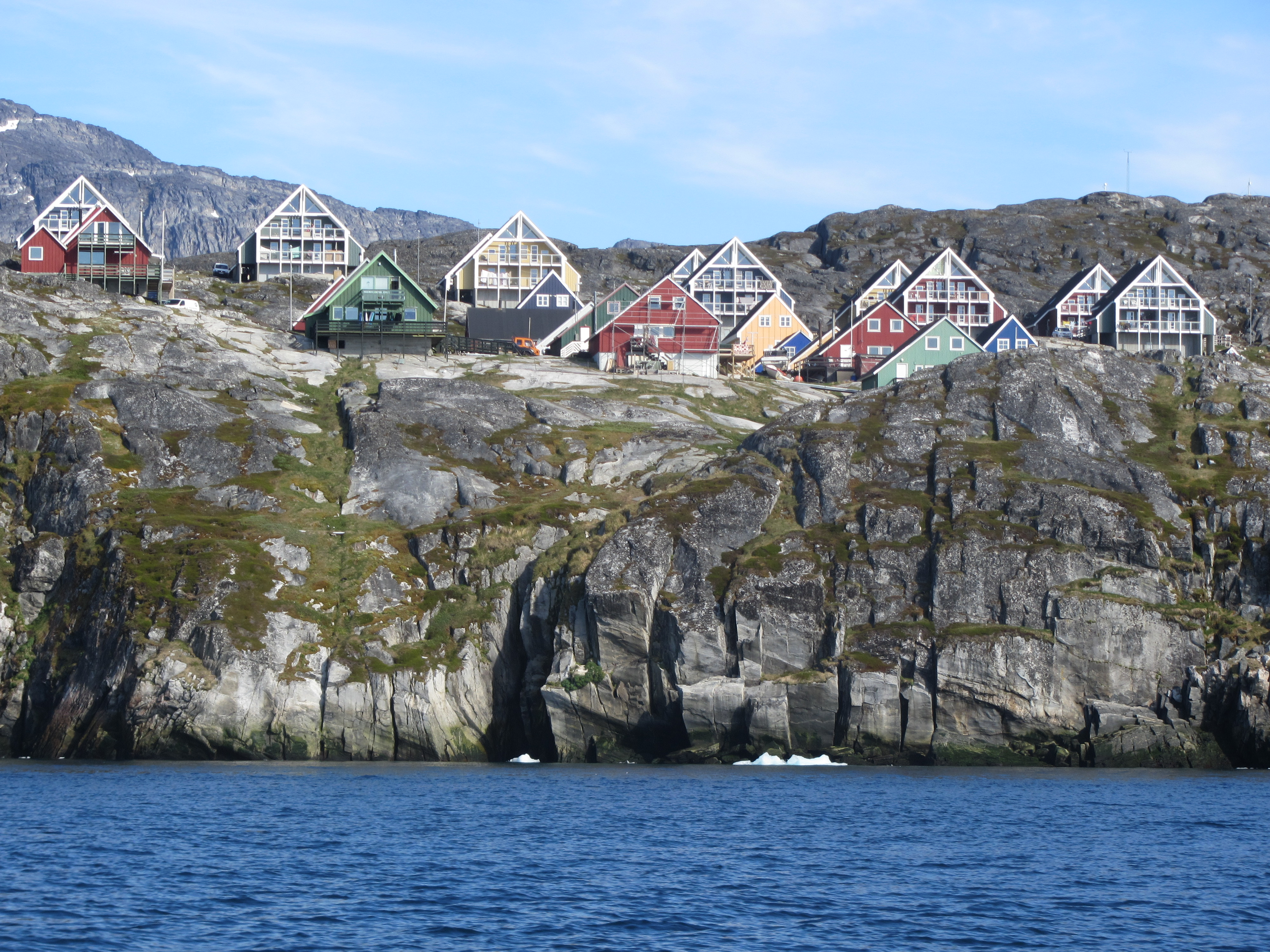 View from Nuuk Fiord